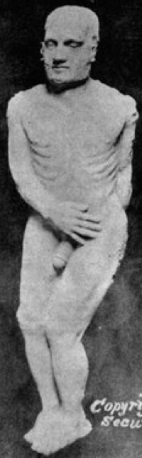 Photo of the Cardiff Giant while on display at the Bastable in Syracuse, NY. Circa 1869.